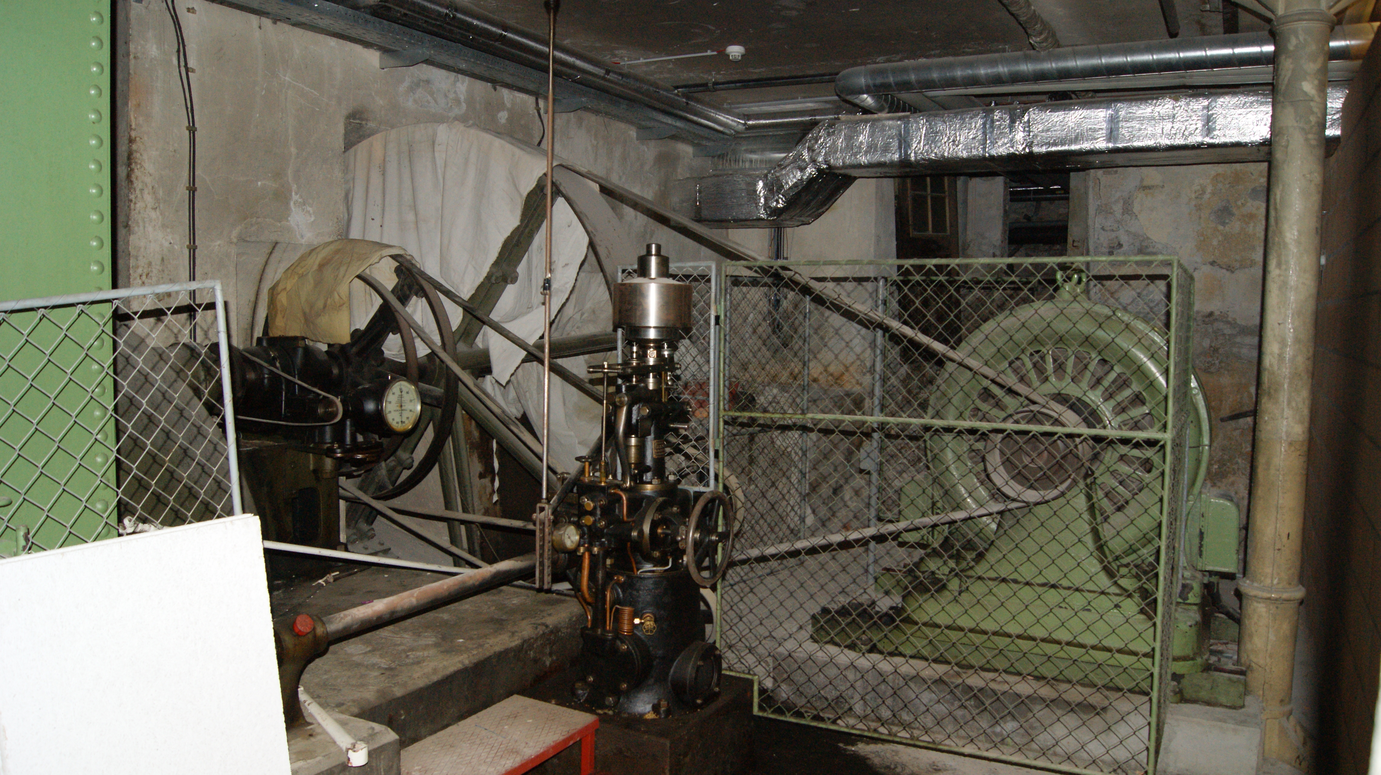 Power plant in the former office building of the Company: Franz Martin Haemmerle (FMH), Sägerstrasse 4 in 6850 Dornbirn, Vorarlberg, Austria.